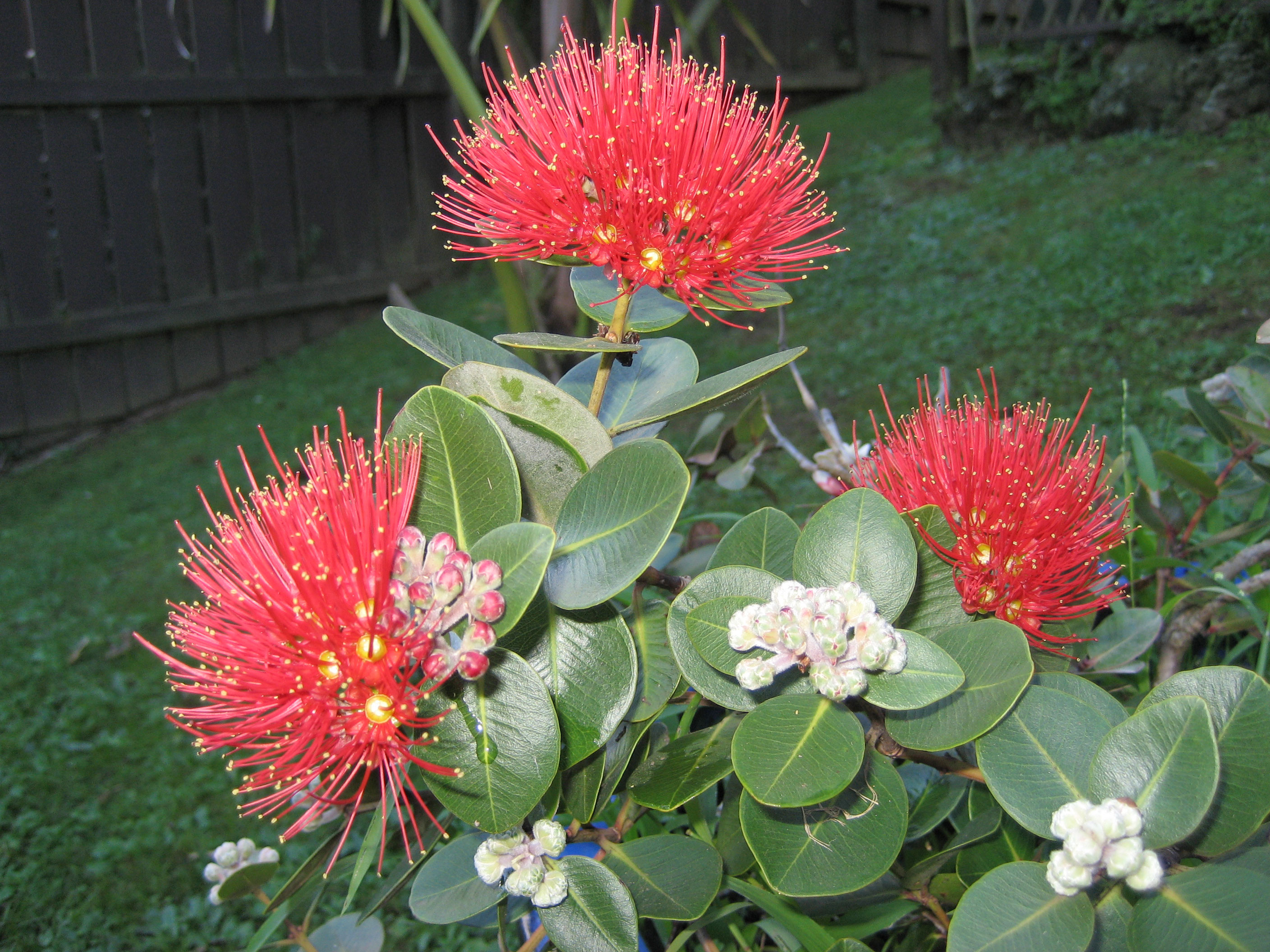 Foliage of 'Tahiti', a cultivar of Metrosideros collina, in flower in Auckland, New Zealand